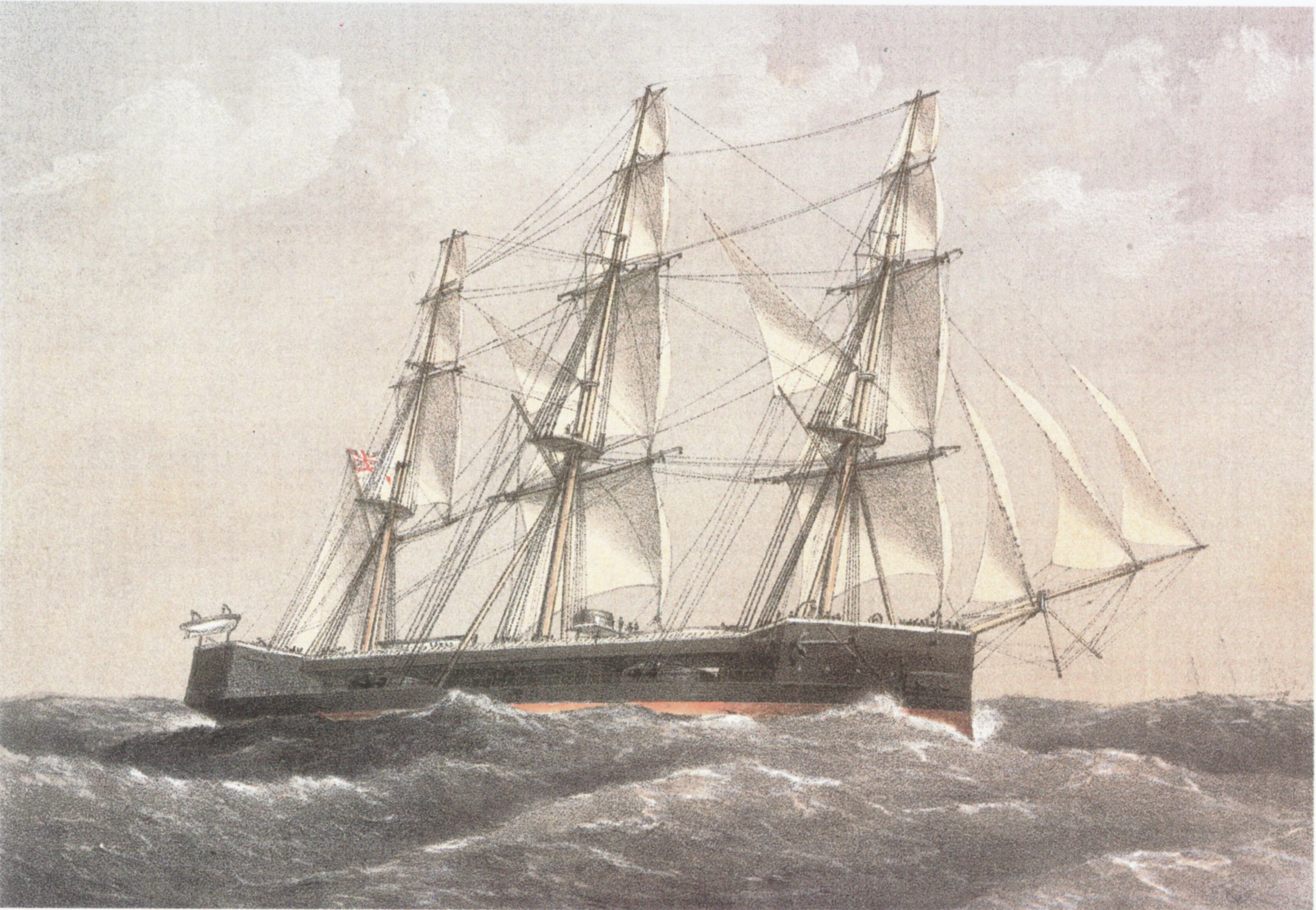 Painting of the British warship HMS Captain, completed in April 1870 and capsized in September 1870 with the loss of nearly 500 lives because of design and construction errors.